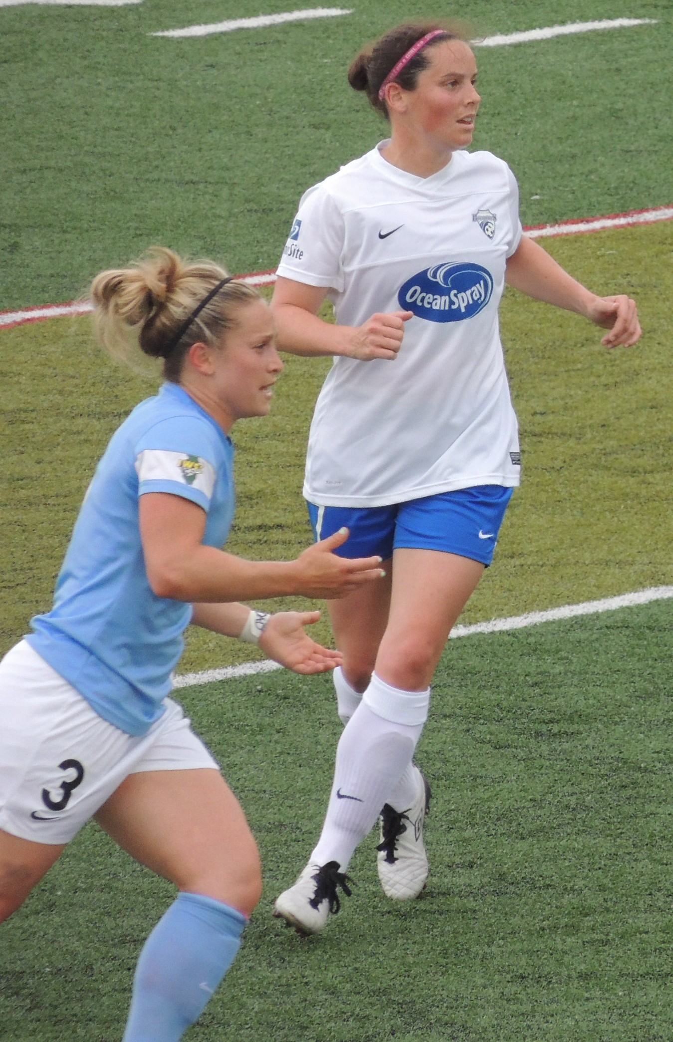 Ella Masar and Rhian Wilkinson, soccer players; 2013-06-09 Chicago Red Stars vs Boston Breakers